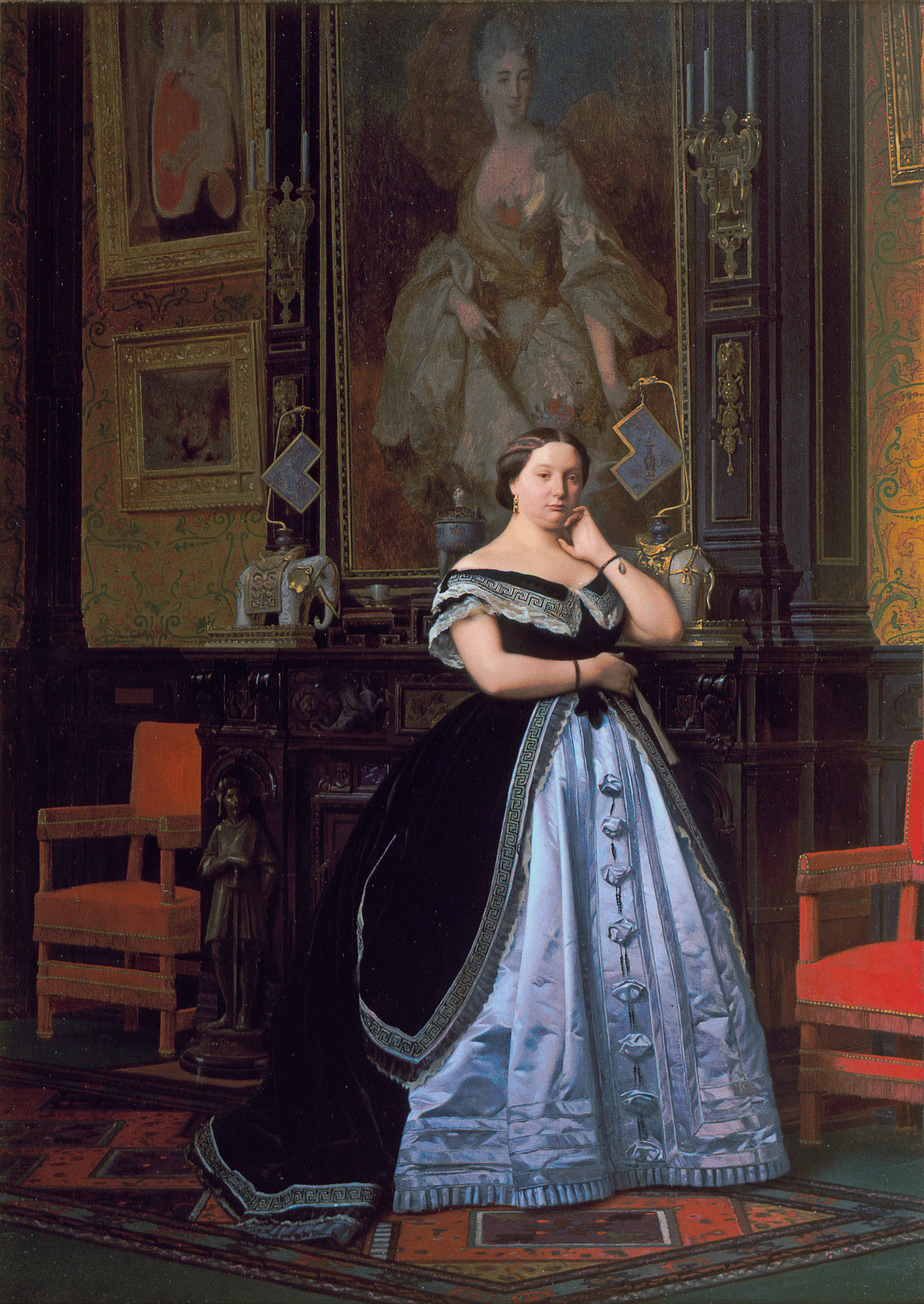 La baronne de Nathaniel Rothschild oil on panel 49,6 x 35,8 cm 1866